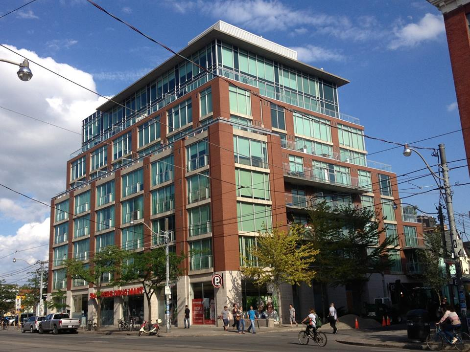 Ideal Lofts is a residential condominium low-rise building at 301 Markham Street and College Street in Little Italy, Toronto. Shoppers Drug Mart is a commercial tenant on the ground floor at 463 College St.